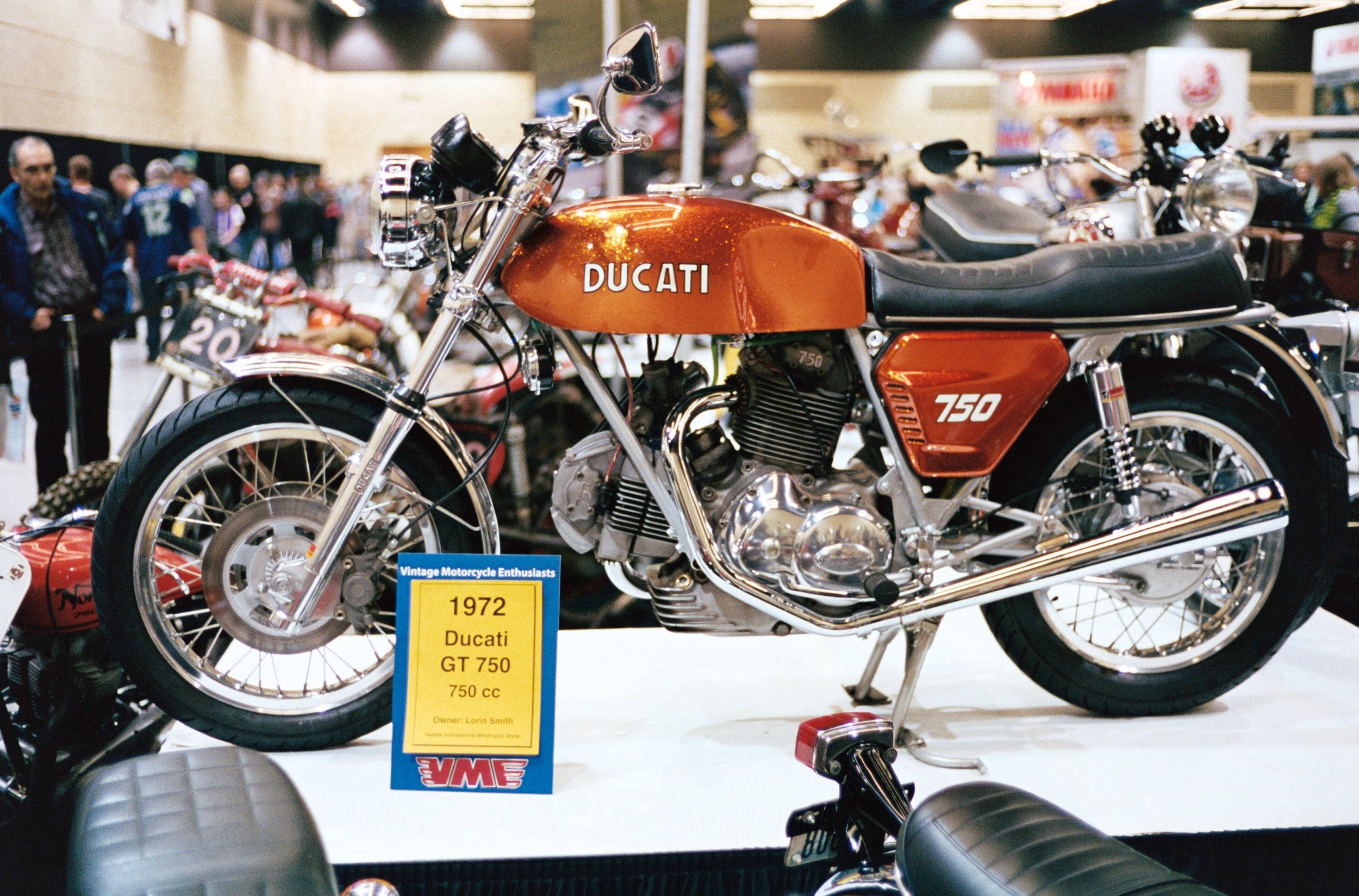 2014 Seattle International Motorcycle Show